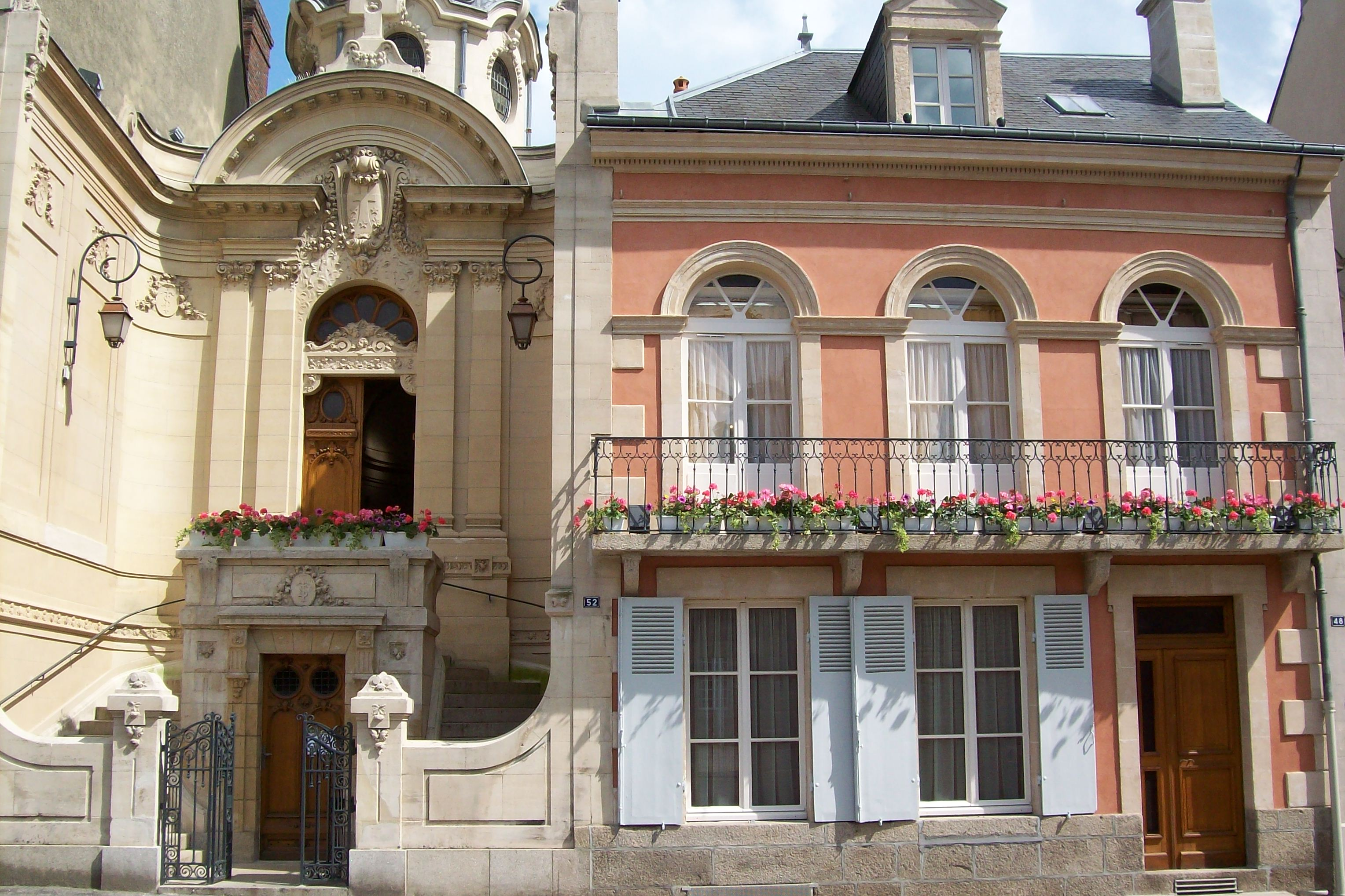 Maison natale de Sainte Thérèse et des bienheureux Louis et Zélie Martin, ses parents